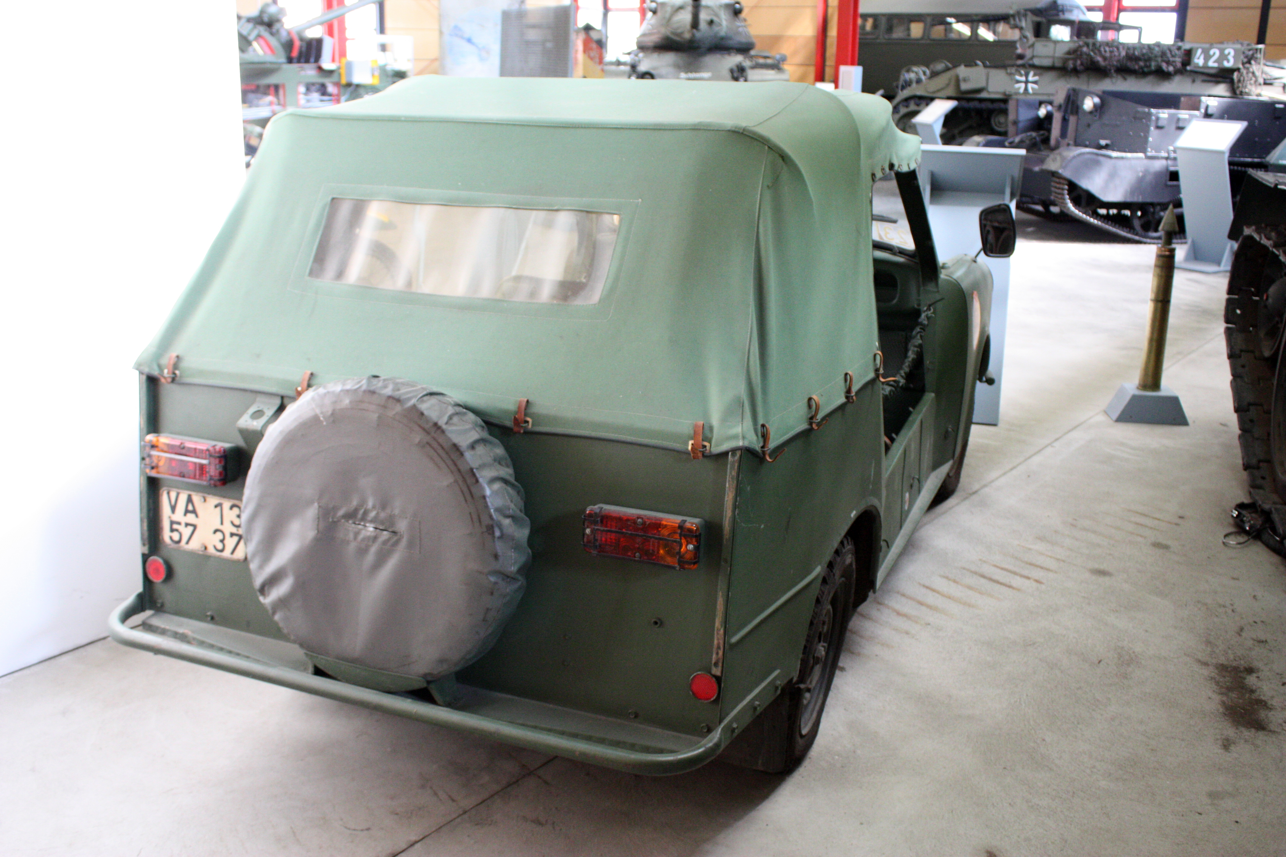 German Tank Museum